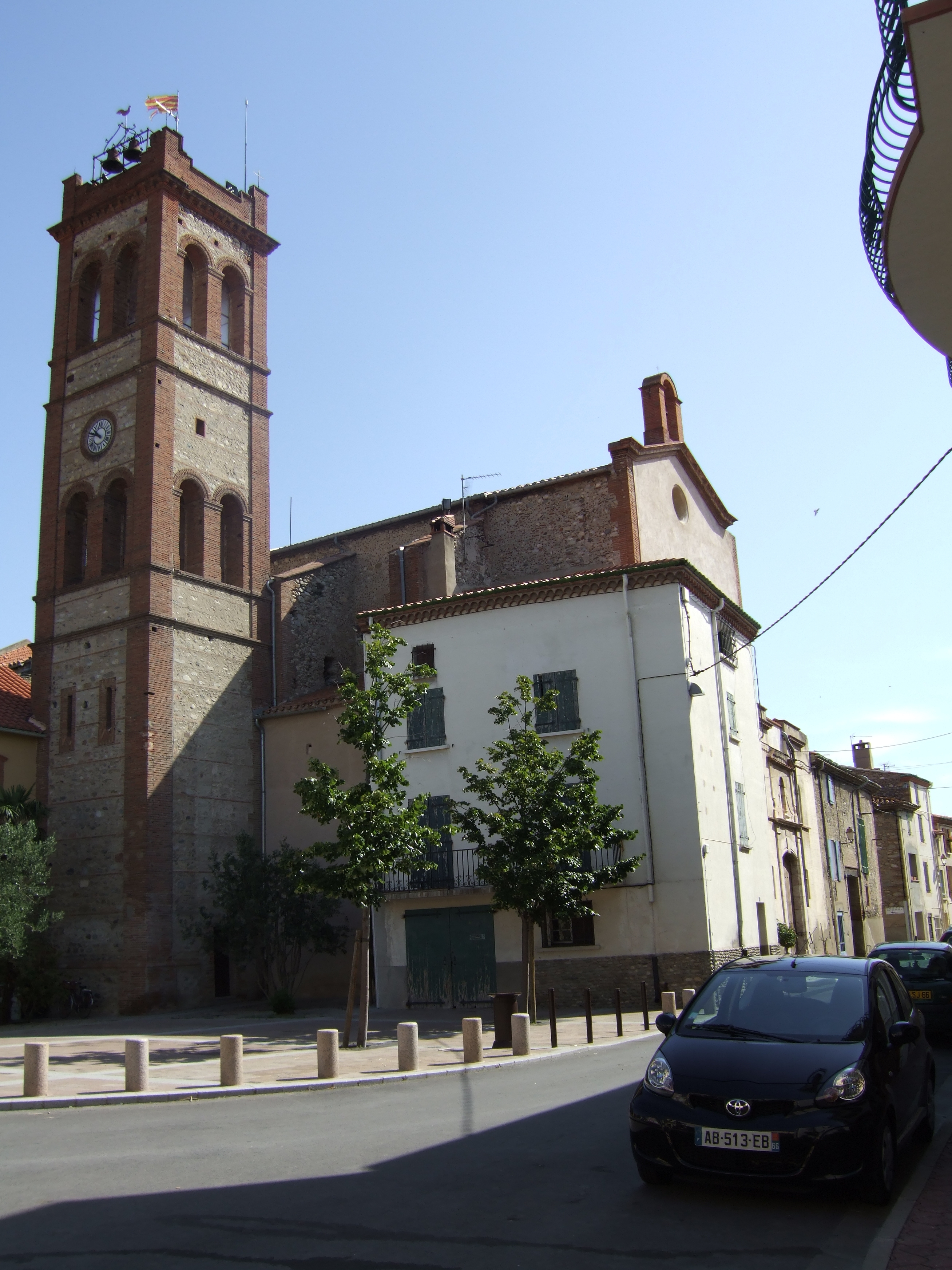 St. Mary's church in Néfiach (France)